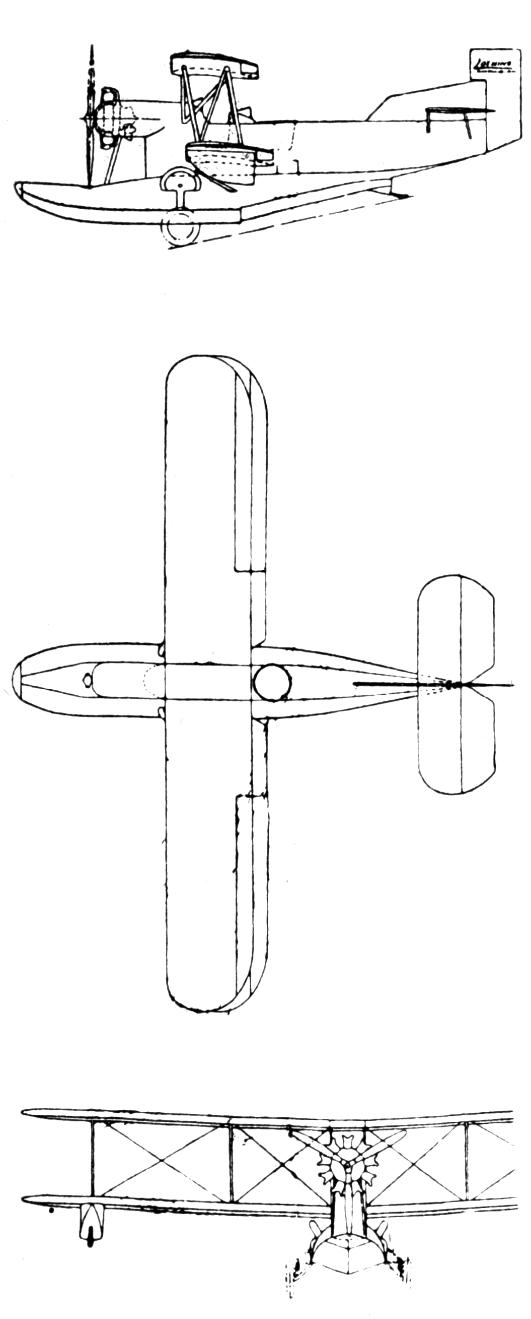 Loening OL-8 3-view drawing from L'Aérophile March,1928